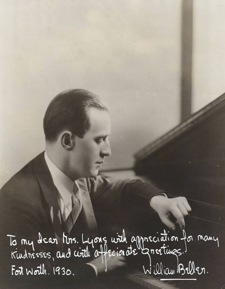 ca. 1930 portrait of American pianist William Beller